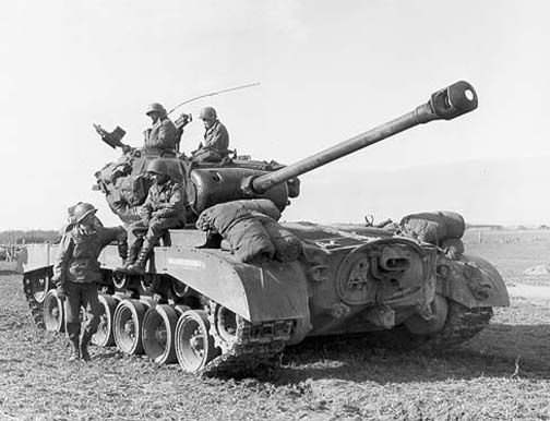 9th AD M-26 Pershing Heavy Tank photographed near Vettweiss, Germany in March 1945.